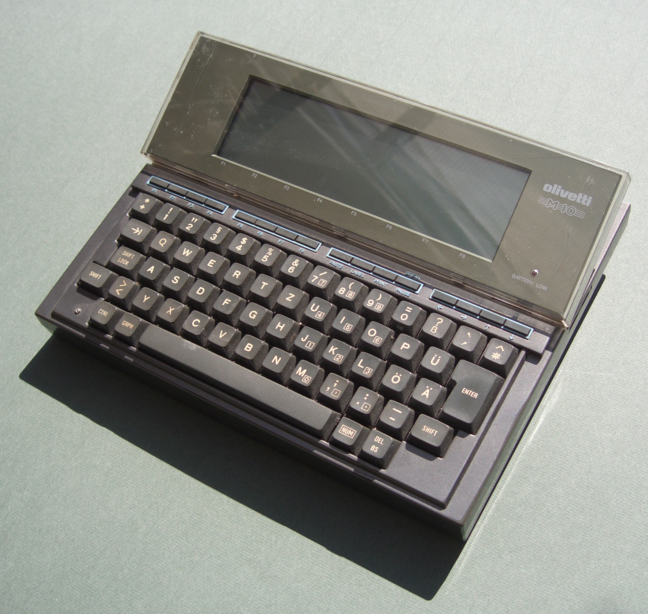 Olivetti M10 Personal Computer (1983). Design by Perry A. King and Antonio Macchi Cassia Photo: Christos Vittoratos